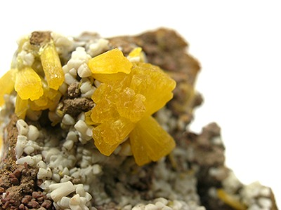 Legrandite, Smithsonite Locality: Flor de Peña Mine, Lampazos de Naranjo (Lampazos), Municipio de Lampazos de Naranjo, Nuevo Leon, Mexico (Locality at ) Size: miniature, 5.4 x 4.1 x 2.1 cm Legrandite on Smithsonite This is a VERY rare piece of legrandite from the TYPE LOCALITY for the species: This is NOT Ojuela as most people think, but a small earlier find in Nuevo Leon , a completely different location and geology! This specimen is attractive in that the legrandite is contrasted against white smithsonite (this association is a dead giveaway of its true origin, aside from the unique crystal form and notably radiating habit of the legrandite clusters themselves). Overall, it is a rich piece and one of the best I have seen for sale since I first learned this fact about a decade ago, myself. Who knew?! Well, these can only get rarer with time, even more so than the comparbly plentiful Ojuela Mine material. NOTE: There are more crystals on the backside, as well!